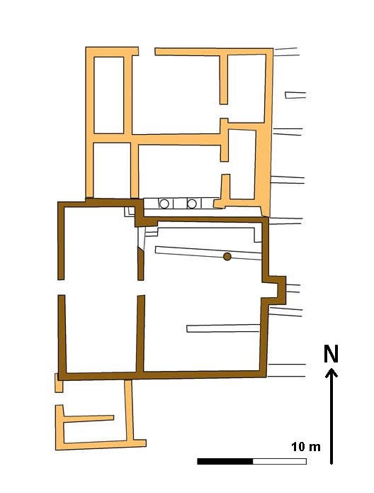 Plan of the synagogue of Priene; redrawn from Wiegand, Theodor ; Schrader, Hans Priene: Ergebnisse der Ausgrabungen und Untersuchungen in den Jahren 1895-1898 Berlin, 1904, fig. 585 on page 480